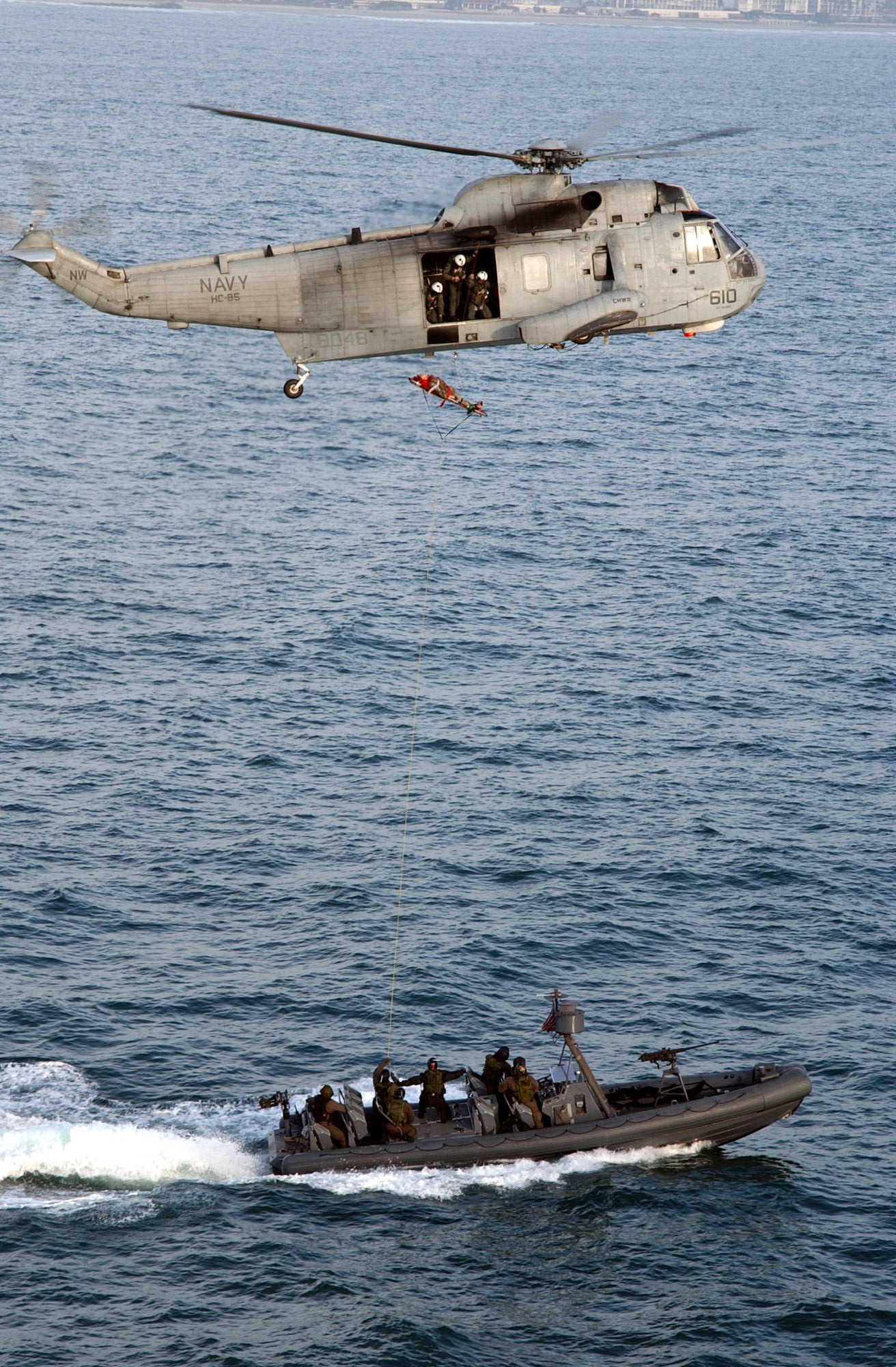 San Diego, Calif. (Jan. 15, 2004) -- An UH-3H Sea King helicopter assigned to the Golden Gators of Helicopter Combat Support Squadron Eight Five (HC-85) conduct search and rescue training with Special Boat Unit 12 (SBU-12) off the coast of San Diego. U.S. Navy photo by Photographer's Mate 2nd Class Katrina Beeler. (RELEASED)